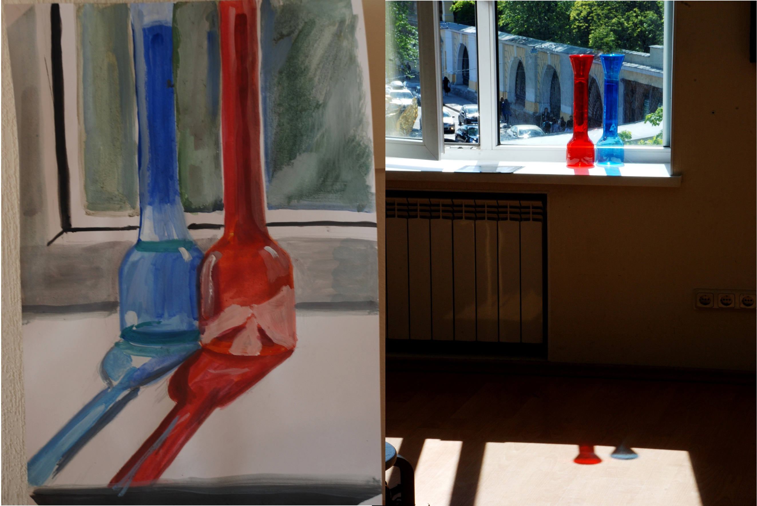 still life